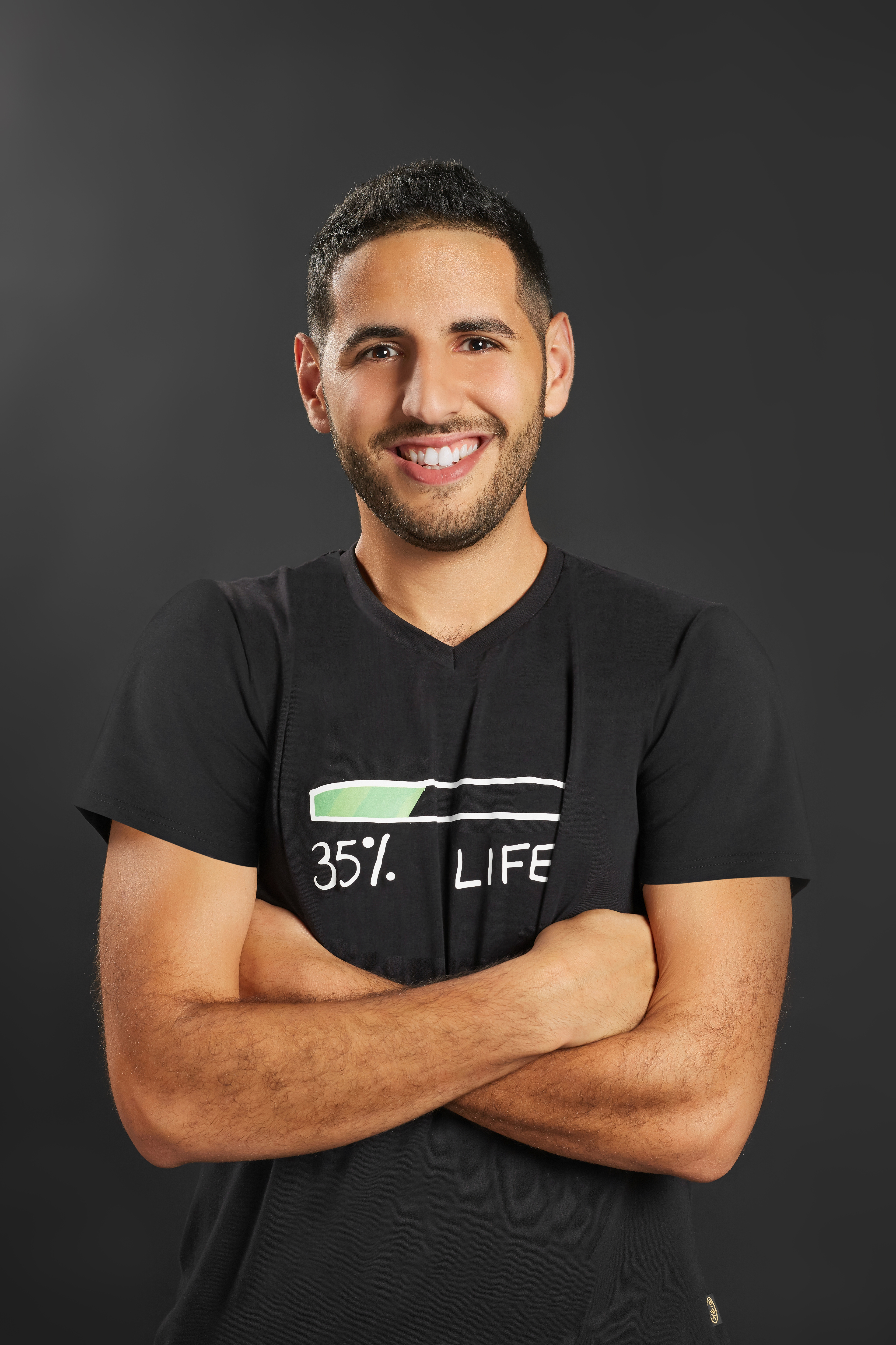 Nuseir Yassin's portrait